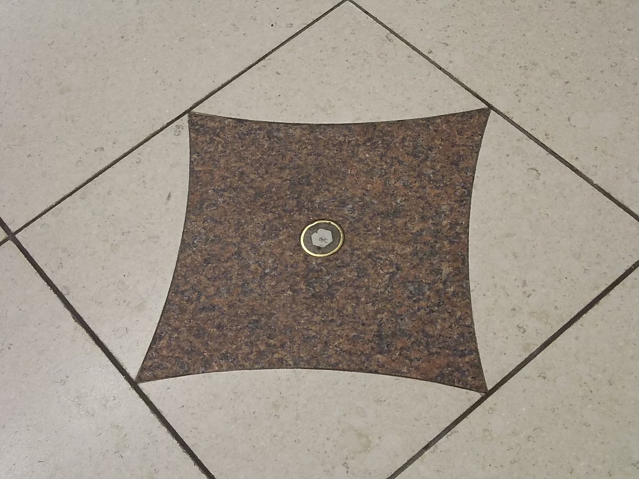 Plate at Tokyo Station marking the spot of the attempted assassination of Japanese Prime Minister Osachi Hamaguchi on 14 November 1930